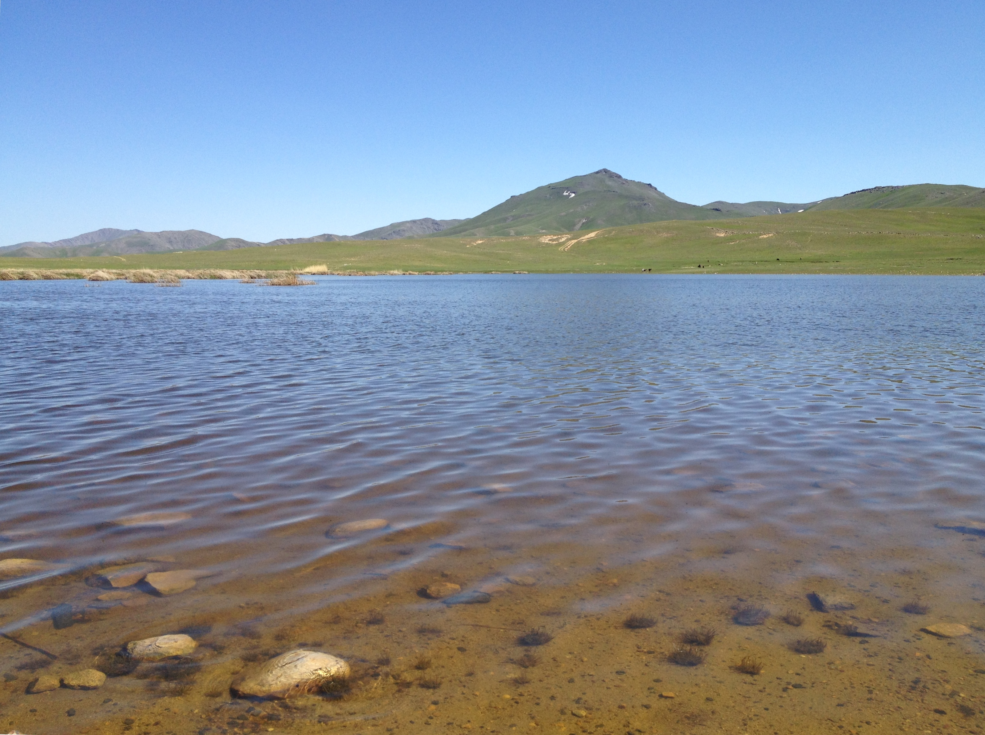 Fazilman lake. Waves Oʻzbekcha/ўзбекча: Fazilman ko'ldagi to'lqinlar / Фазилман кўлдаги тўлқинлар